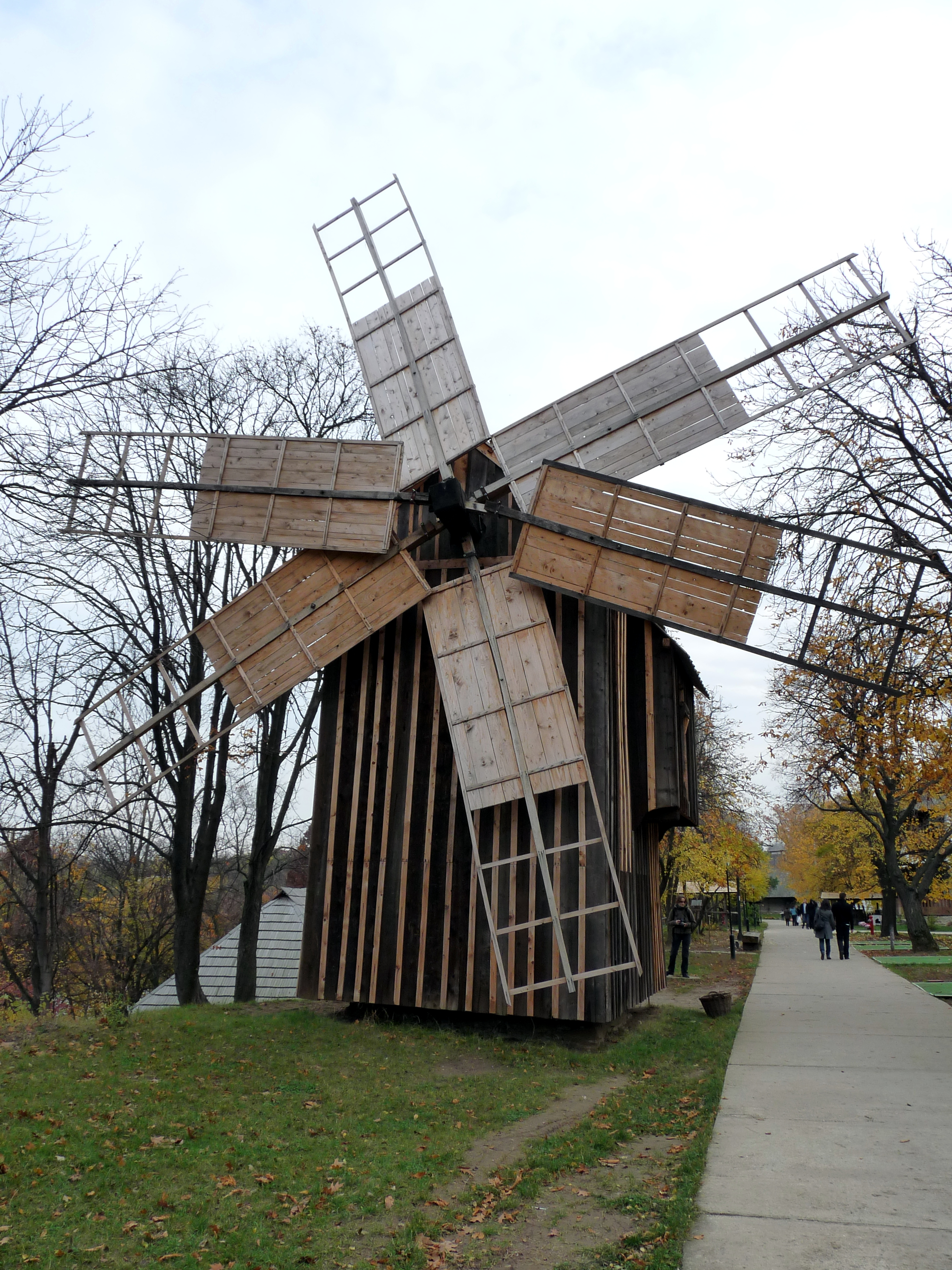 20th century windmill from Sarichioi, Tulcea County, exhibited at the Village Museum in Bucharest.